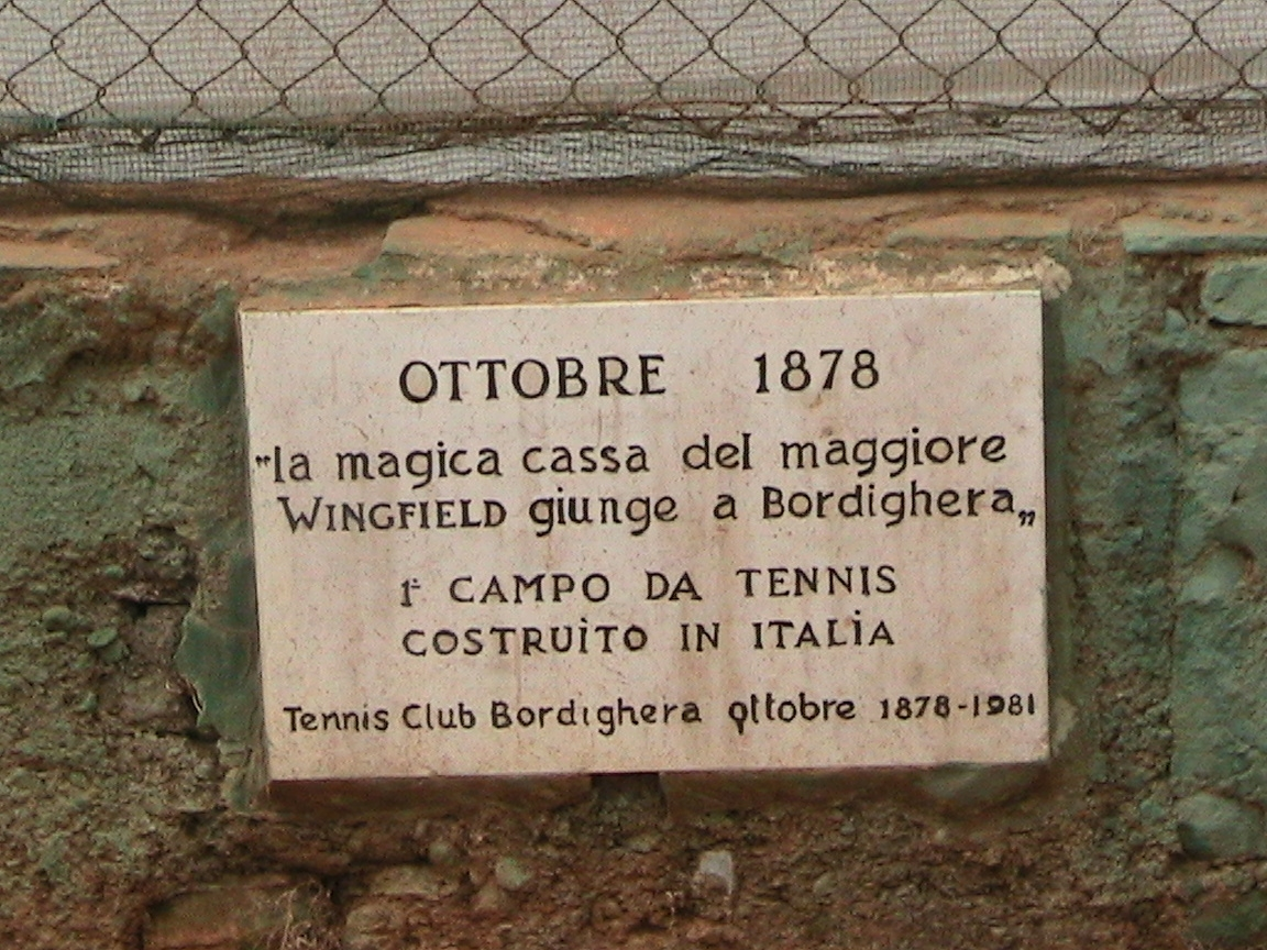 Memorial plate for the first lawn tennis court of Italy in Bordighera